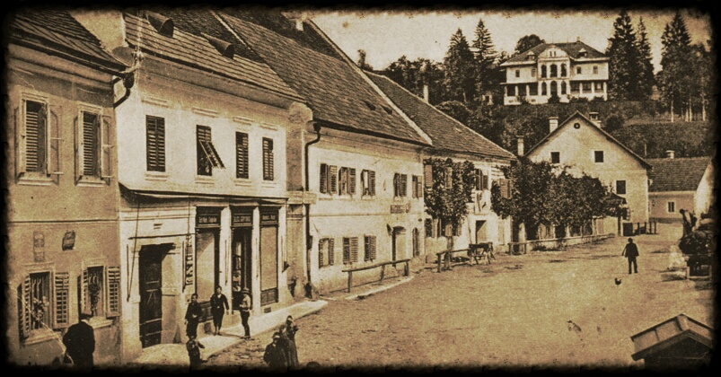 Old market